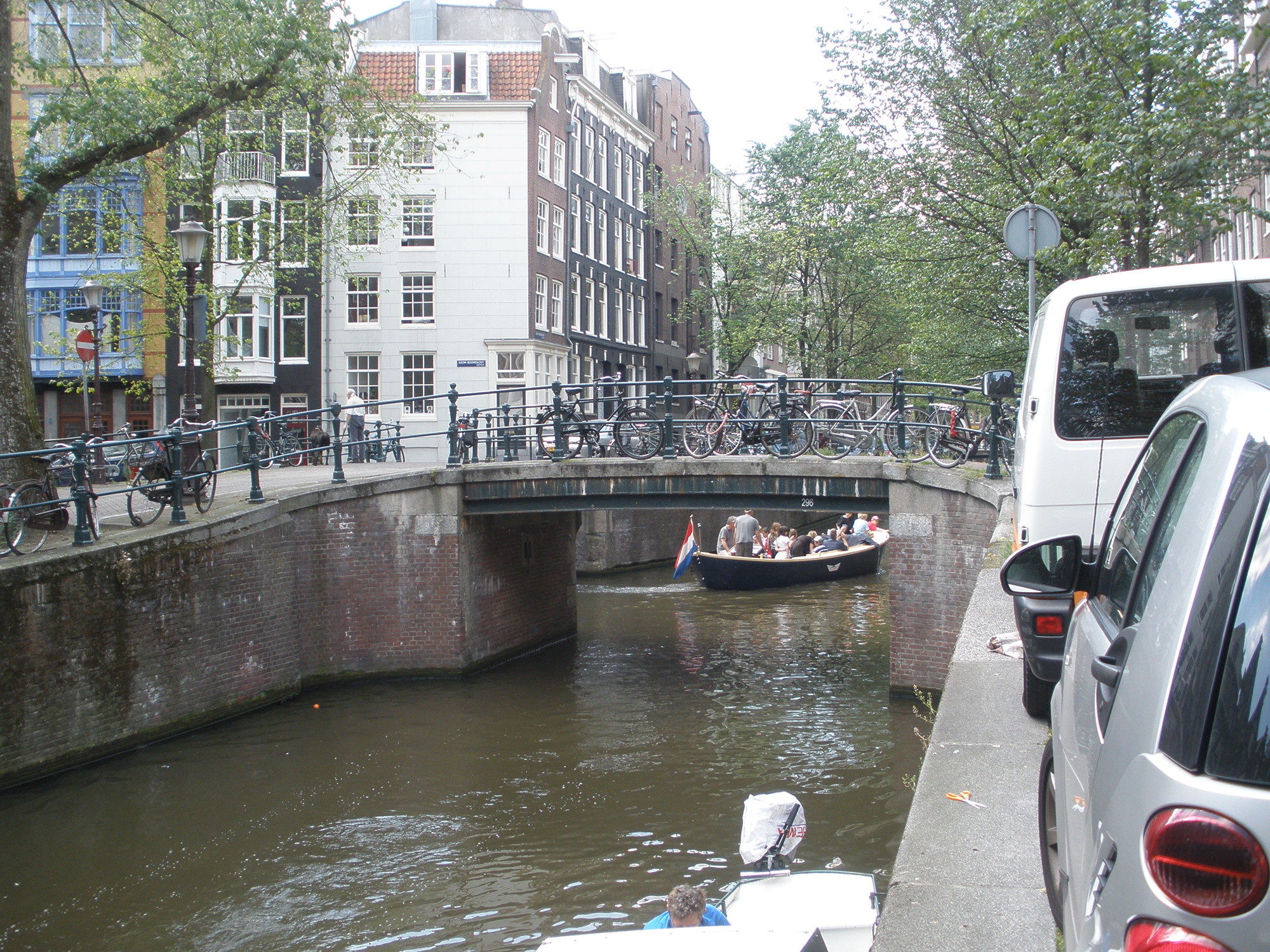 Recht Boomssloot canal in Amsterdam, the Netherlands, looking at the intersection with the Kromboomssloot canal. Bridge 296, Amsterdam.